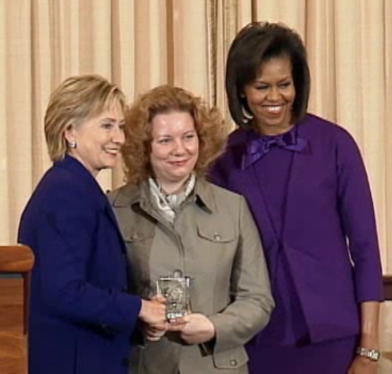 Mar. 11, 2009: Secretary of State Hillary Rodham Clinton hosted the 3rd annual International Women of Courage Awards ceremony with guest speaker First Lady Michelle Obama in the Ben Franklin Room at the State Department.